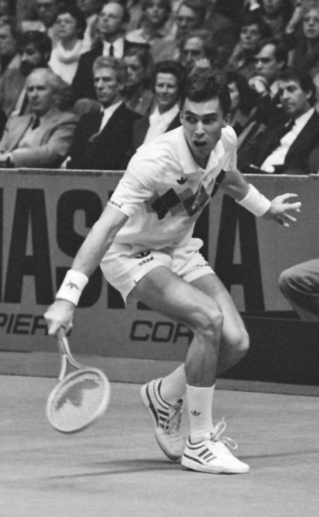 Czechoslovak tennis player Ivan Lendl in the final of the 1984 ABN Tennis Tournament in Rotterdam.